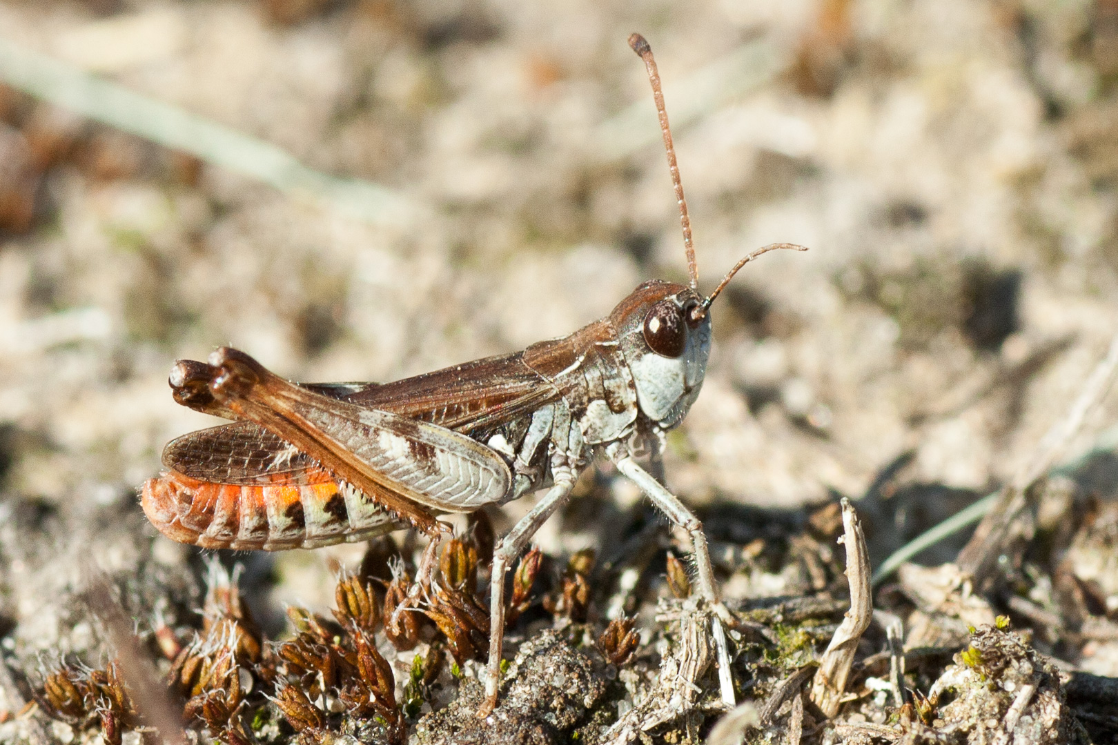 Myrmeleotettix maculatus male. Truskaw near Warsaw, Poland. This is a photography of Natura 2000 protected area with ID PLC140001